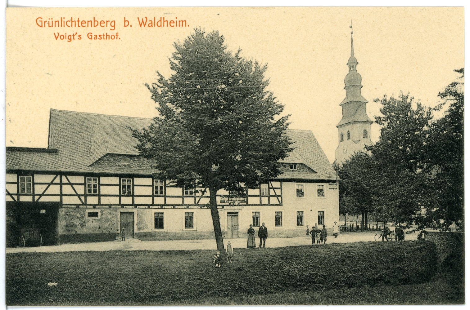 This postcard is from publisher Brück & Sohn in Meißen ( This postcard has a unique number 16642 and is available in a higher resolution at the publisher. This images was uploaded in a cooperation project between Wikipedians and the publisher.